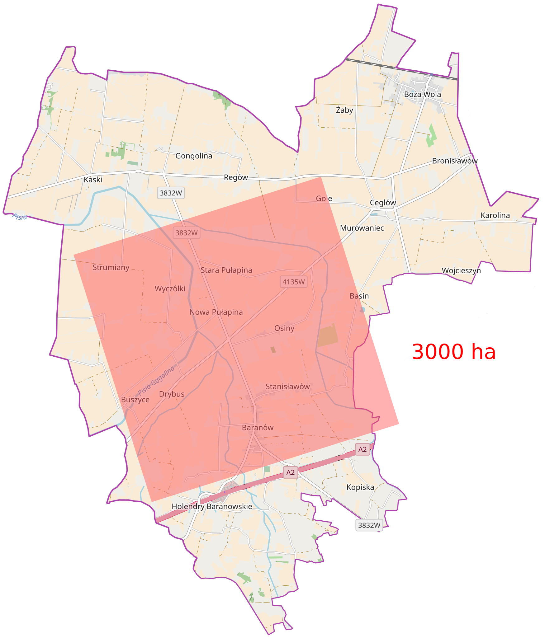 Map of Baranów municipality and 3000 hectares area of CPK, Poland This map of Baranów (gmina w województwie mazowieckim) was created from OpenStreetMap project data, collected by the community. This map may be incomplete, and may contain errors. Don't rely solely on it for navigation.